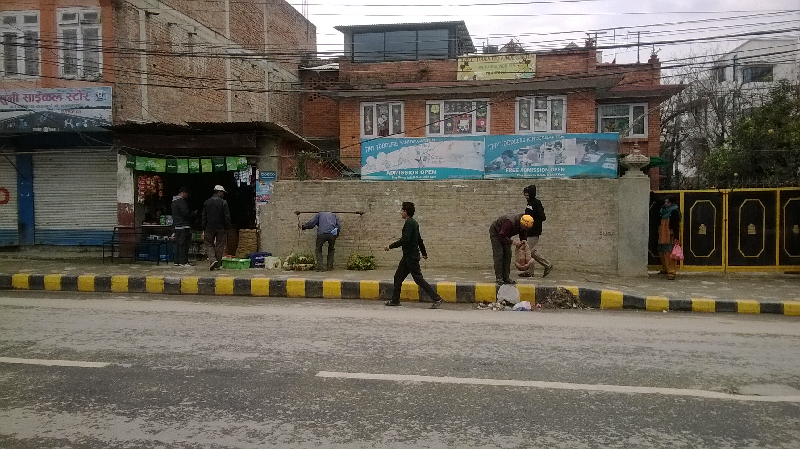 An ancient tool used to carry goods.